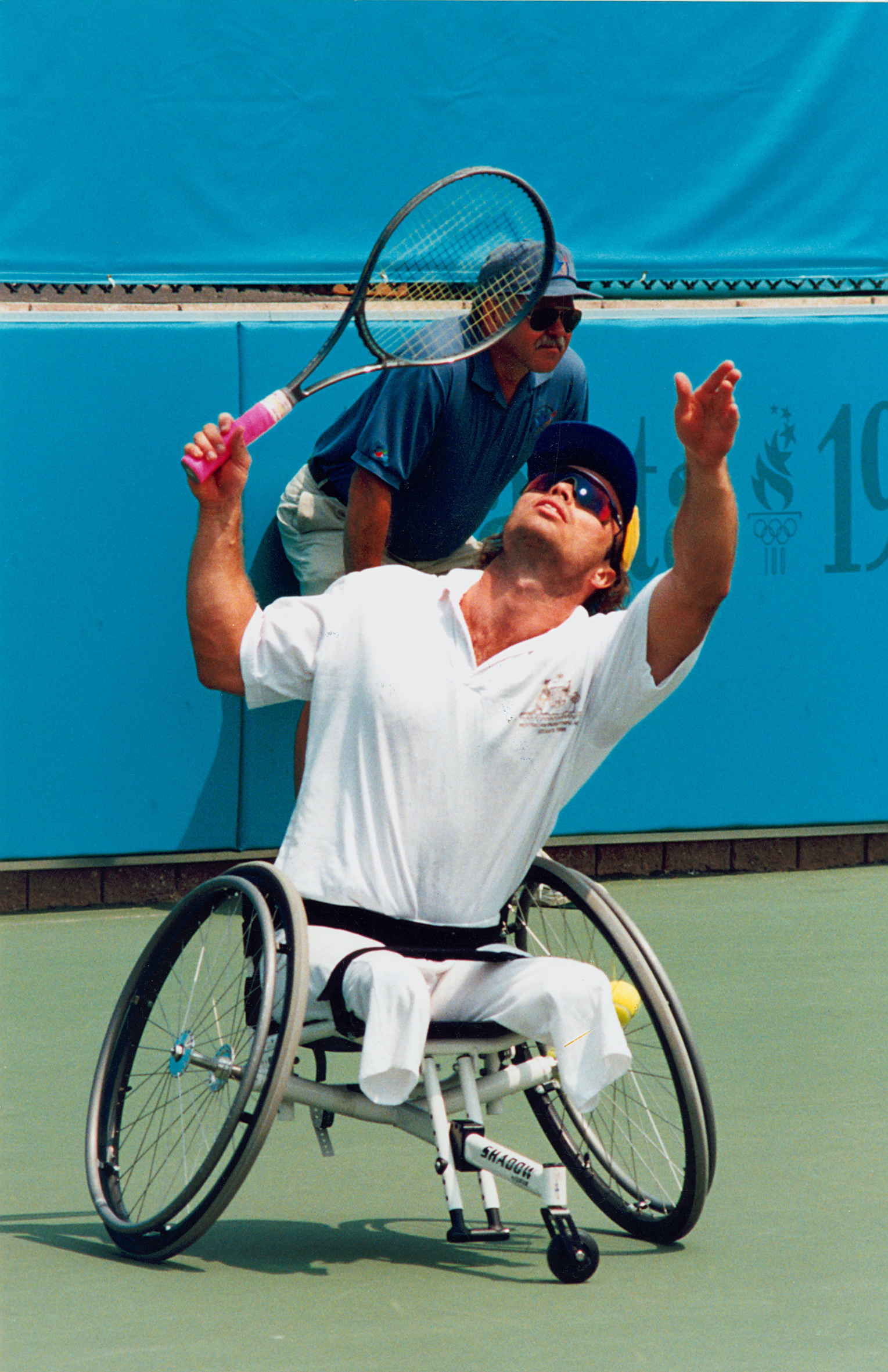 Australian wheelchair tennis player David Hall serves during the 1996 Atlanta Paralympic Games